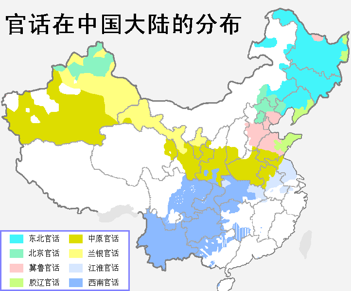 Mandarin dialect subgroups in Mainland China, based on Language Atlas of China, by Stephen Adolphe Wurm, Rong Li, Theo Baumann and Mei W. Lee, Longman, 1987, ISBN 978-962-359-085-3. Chart: 东北 = Northeast China Mandarin 北京 = Beijing Mandarin 冀鲁 = Ji Lu Mandarin 胶辽 = Jiao Liao Mandarin 中原 = Zhongyuan Mandarin 兰银 = Lan Yin Mandarin 江淮 = Jianghuai Mandarin 西南 = Southwestern Mandarin